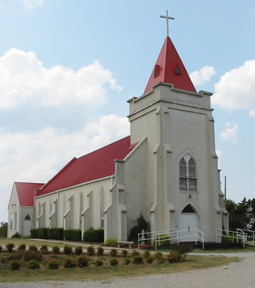 Sacred heart church